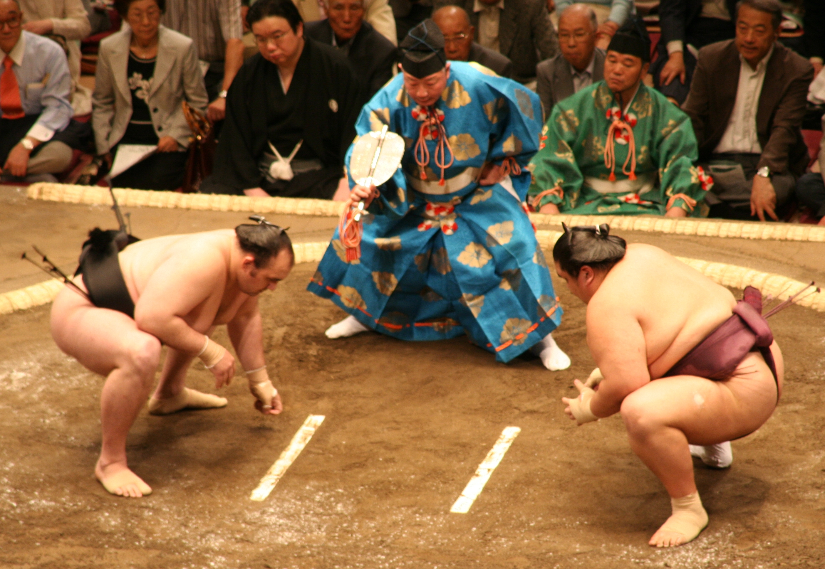 Sumo Wrestler Roho (left) versus Miyabiyama on the first day the of May Tournament 2007 in Tokyo.